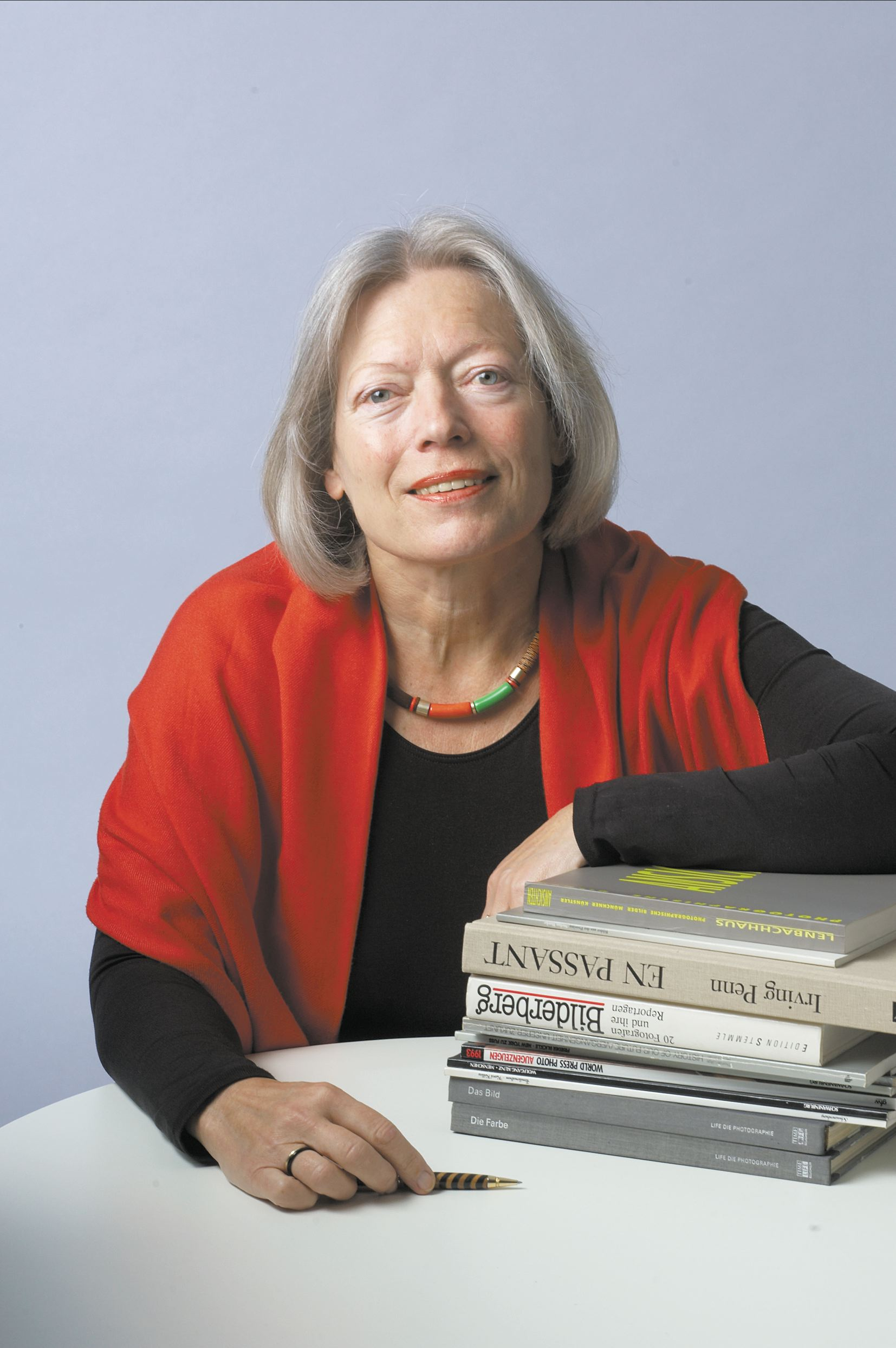 Lioba Betten, publisher